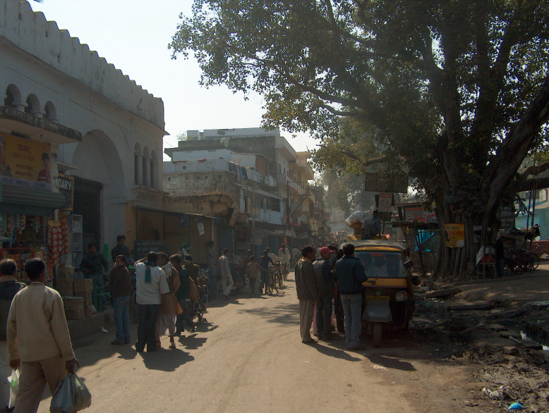 A street in Bodh Gaya, India.